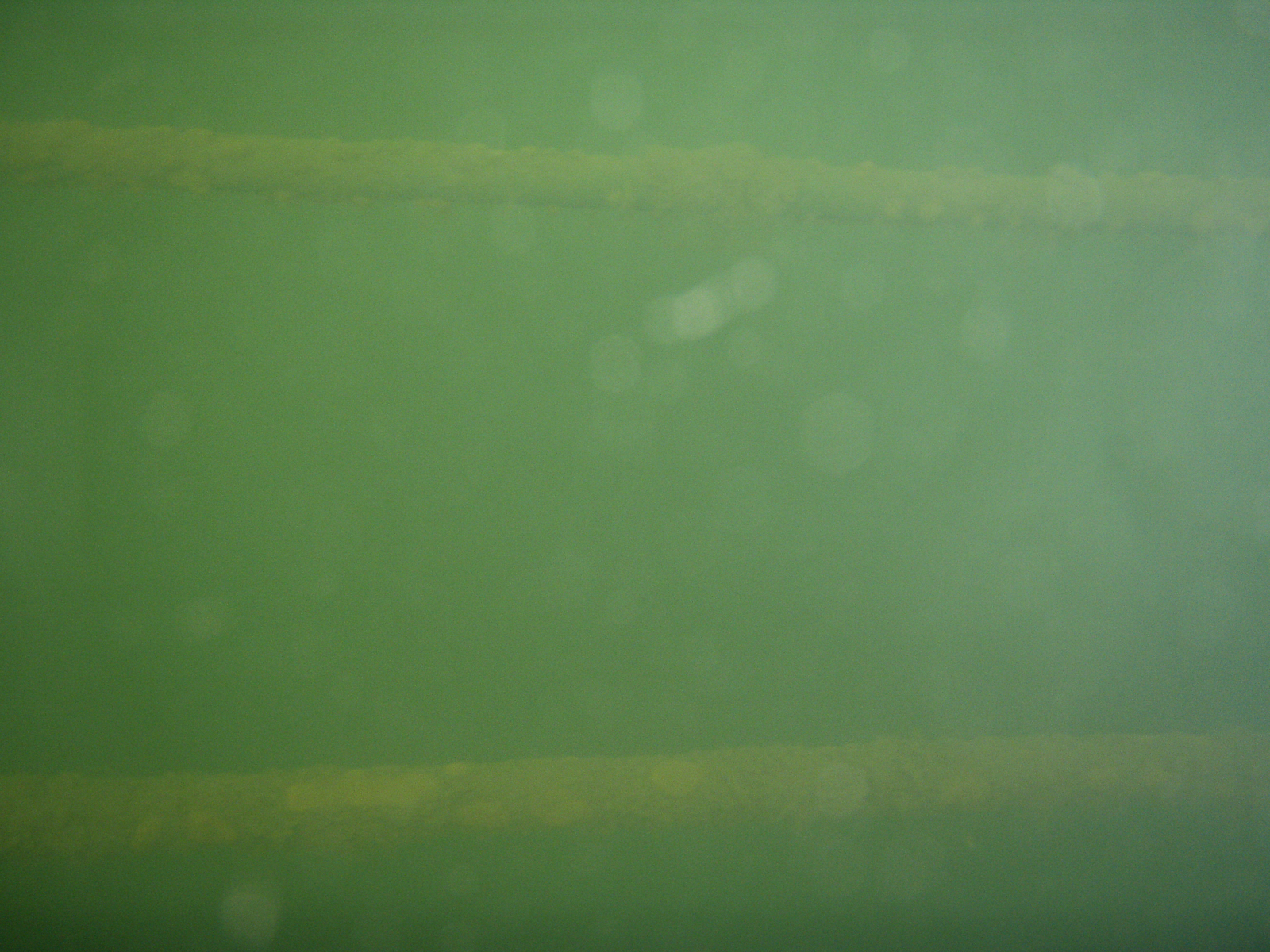 Tie rods that were used in the repair and stabilization project on the Samuel P. Ely (shipwreck).